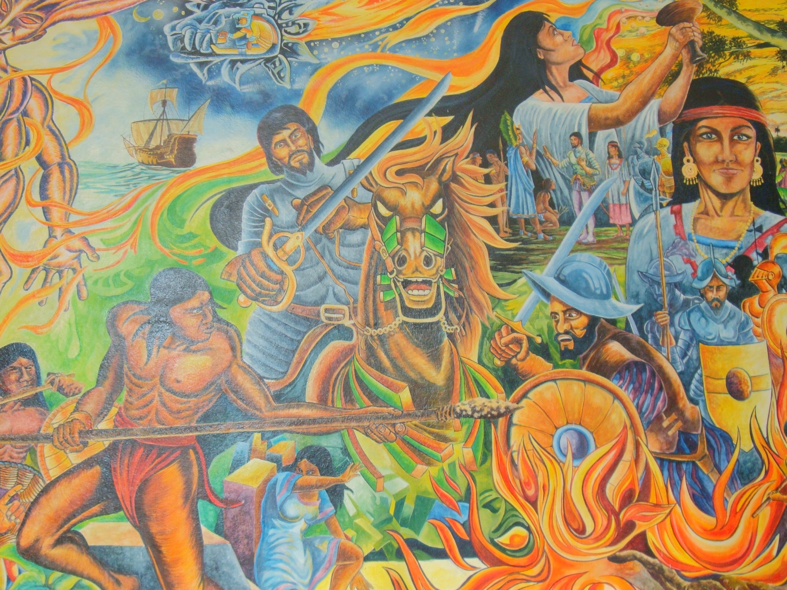 Mural on the Battle of Centla and the conquest of Tabasco, executed by the mural painter Homero Magaña Arellano, and located in City Hall, Paraíso, Tabasco.